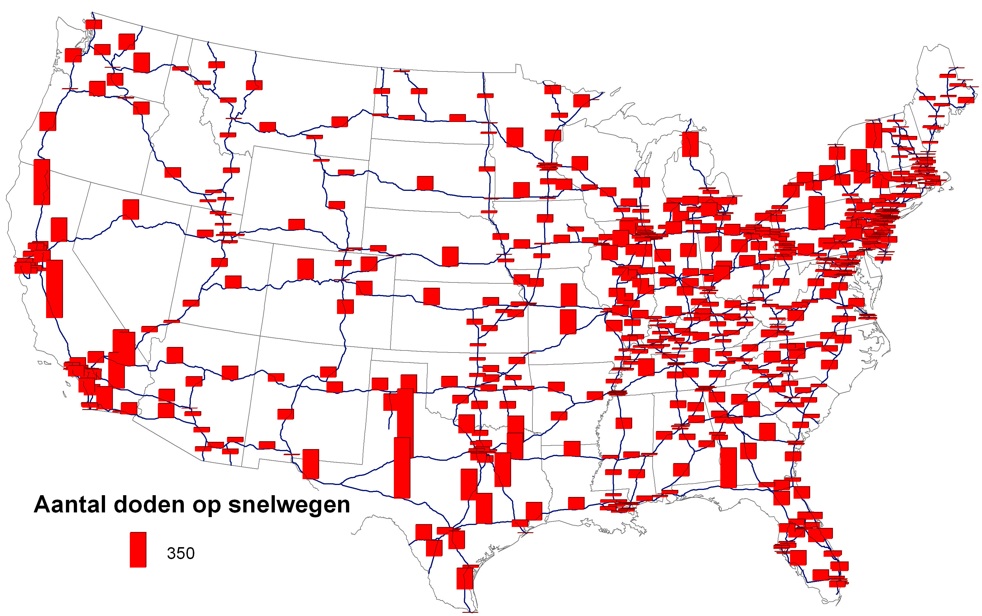 Map of the number of traffic deaths on freeways/interstates in the United States. The distribution of the deaths to specific roads is fake, but based on the actual number of deaths (42,636) in 2004, and a road length of 50,000 miles. For the sake of example, the deaths have been allocated to the states based on a formula that's unlikely to match reality. Thus, this may be a useful example of a particular style of map, but not very useful for illustrations of the United States.